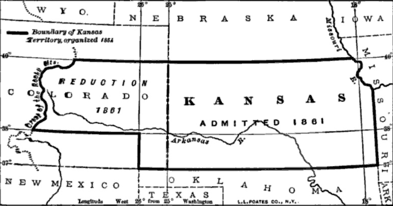 Cyclopedia of American Government Andrew Cunningham McLaughlin Albert Bushnell Hart Published 1914 D. Appleton and company